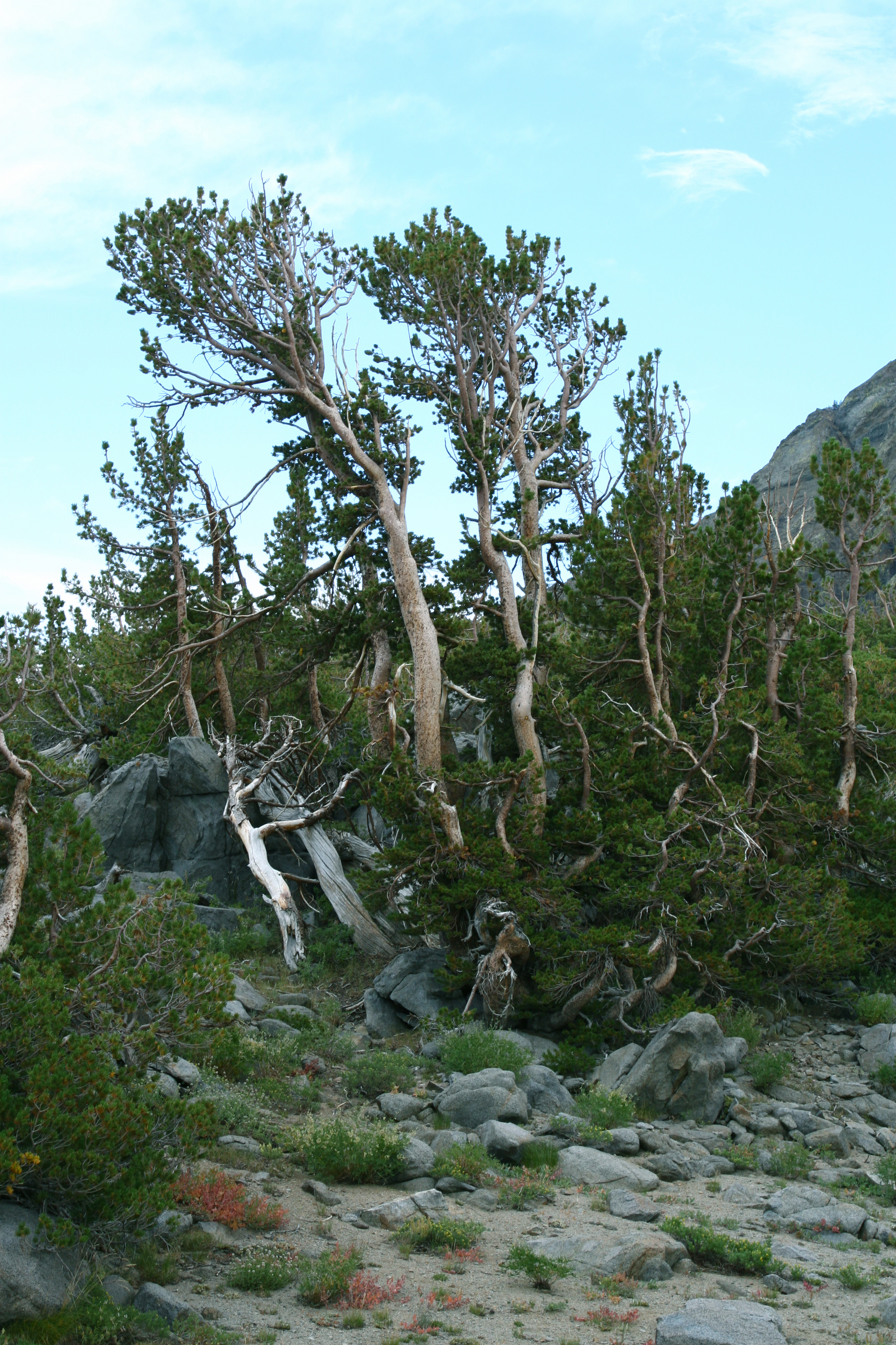 Pinus albicaulis tree cluster, Iron Mountain, California 38°40'03"N 120°00'44"W, 2850m altitude.